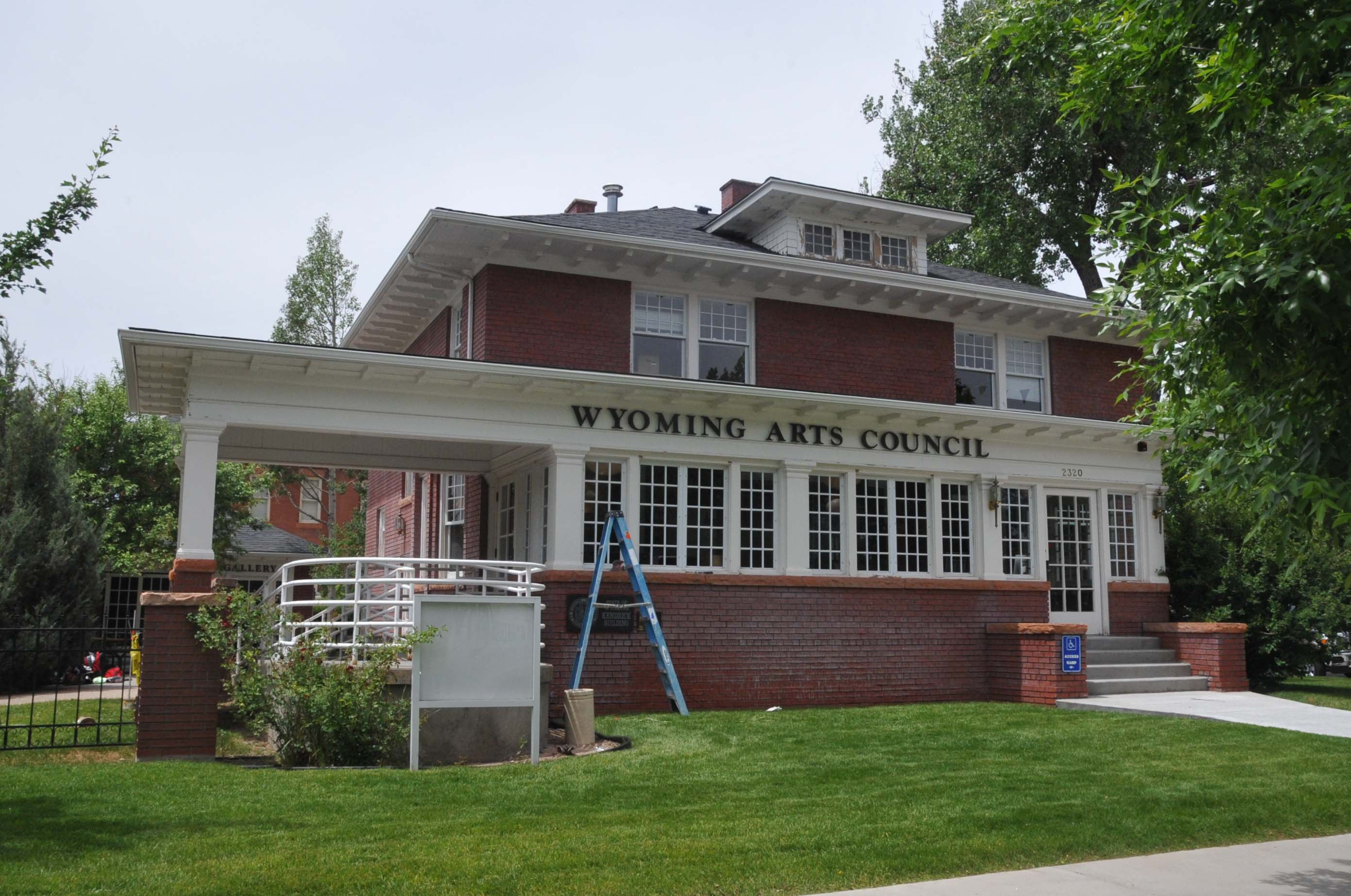 1919; ALSO KNOWN AS KENDRICK HOUSE; NOW USED BY THE WYOMING ARTS COUNCIL